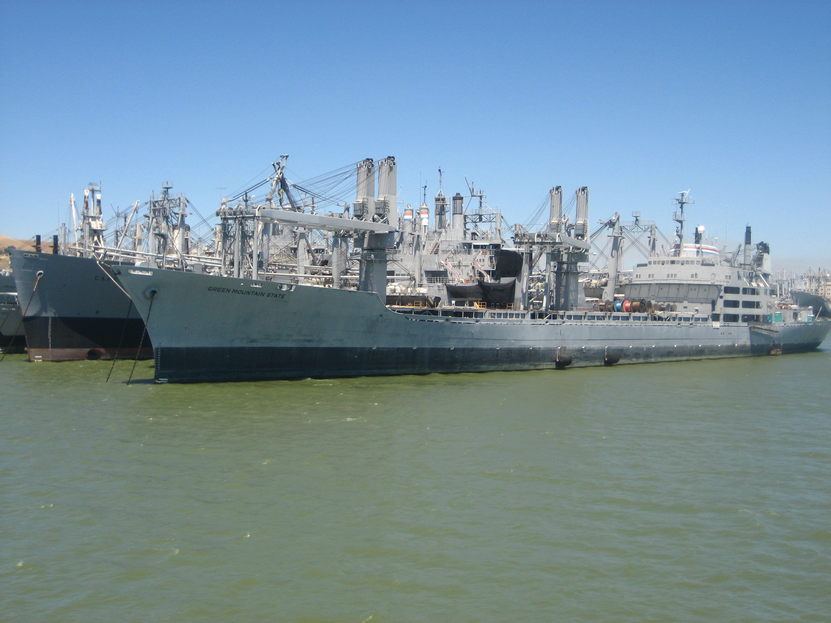 S.S. Green Mountain State as she appears today.